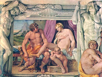 Part of the ceiling fresco cycle The Loves of the Gods in the Farnese Gallery of the Palazzo Farnese in Rome